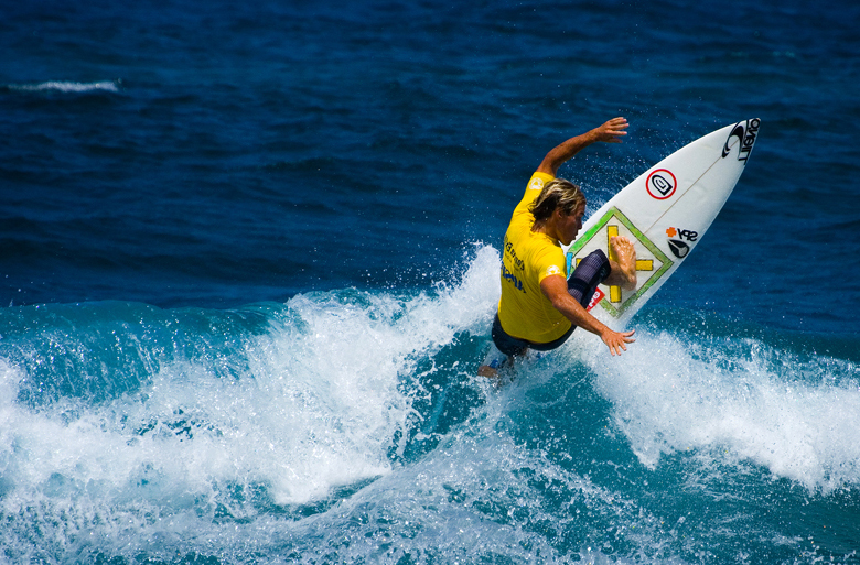 Corona Extra Pro Surf Circuit, Middles Beach, Isabela, Puerto Rico. One of the best competitors.